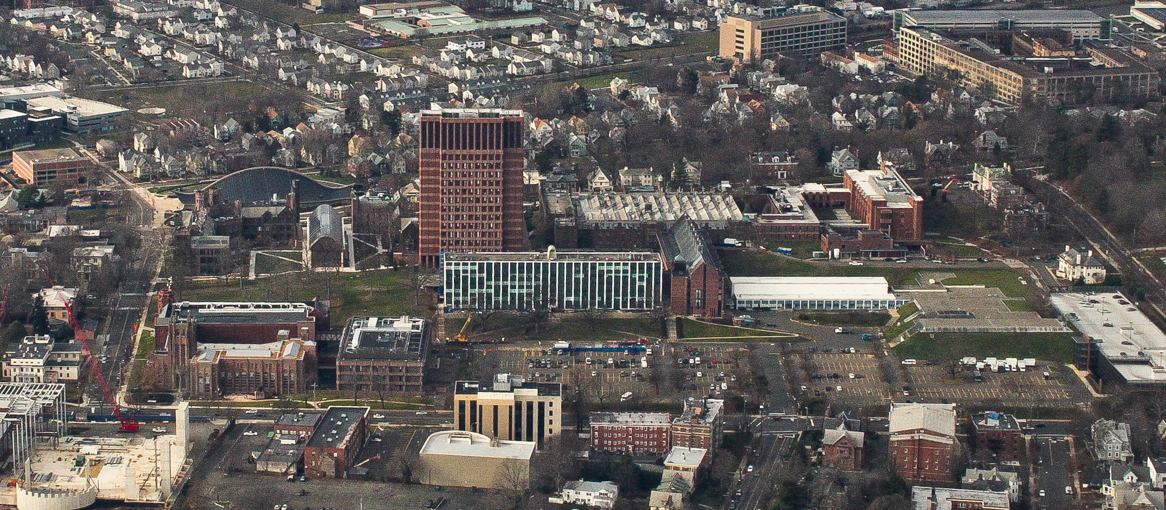 Yale University Science Hill Kline Biology